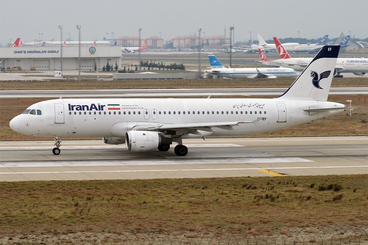 Iran Air, EP-IEF, Airbus A320-211